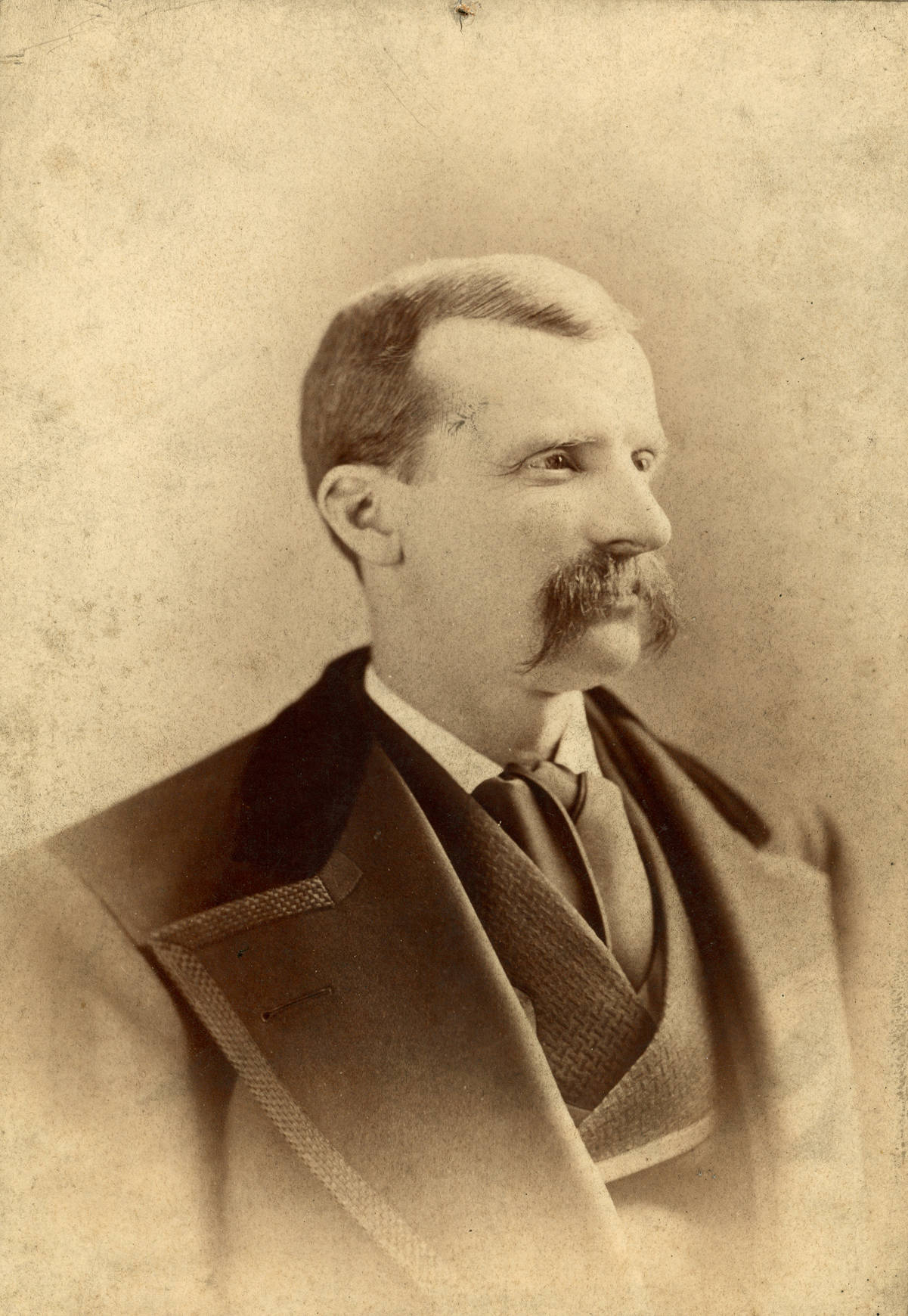 Minstrel player Jack Haverly. Subjects: minstrels and minstrel shows